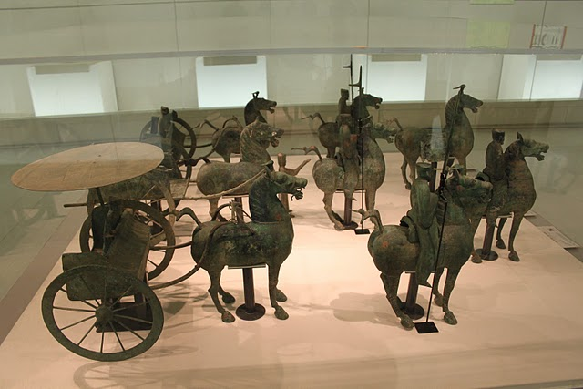 An assortment of bronze figurines excavated from a Chinese Eastern Han tomb, dated 1st or 2nd century AD, depicting military cavalry and spoke-wheeled chariots.